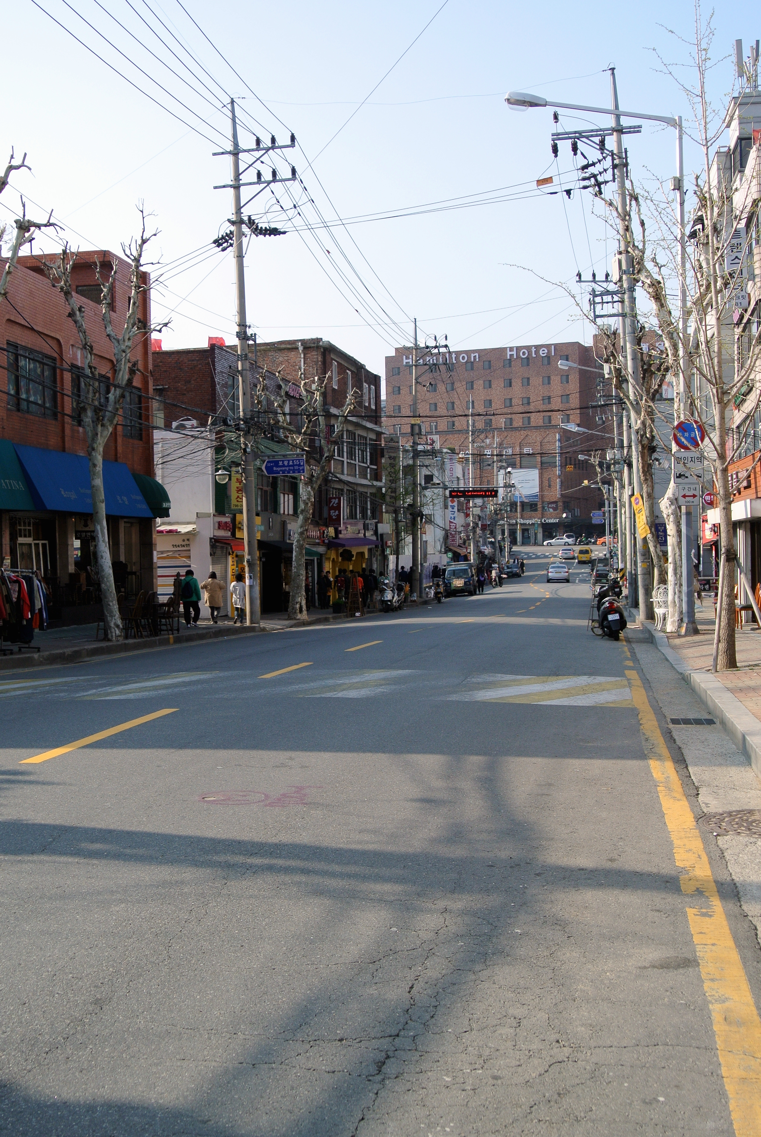 Bogwang street and Hamilton Hotel in Itaewon